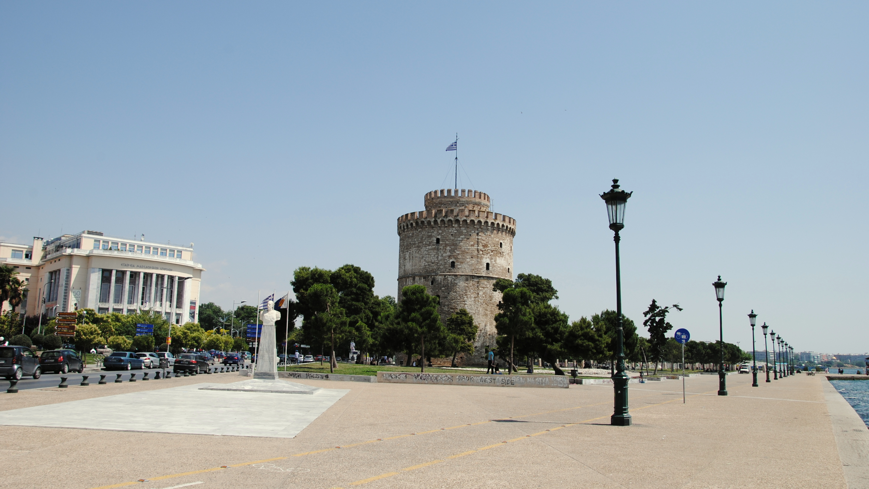 Thessaloniki, Greece